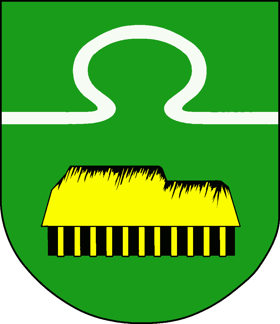 Coat of arms of the municipality Hodorf in Schleswig-Holstein, Germany.